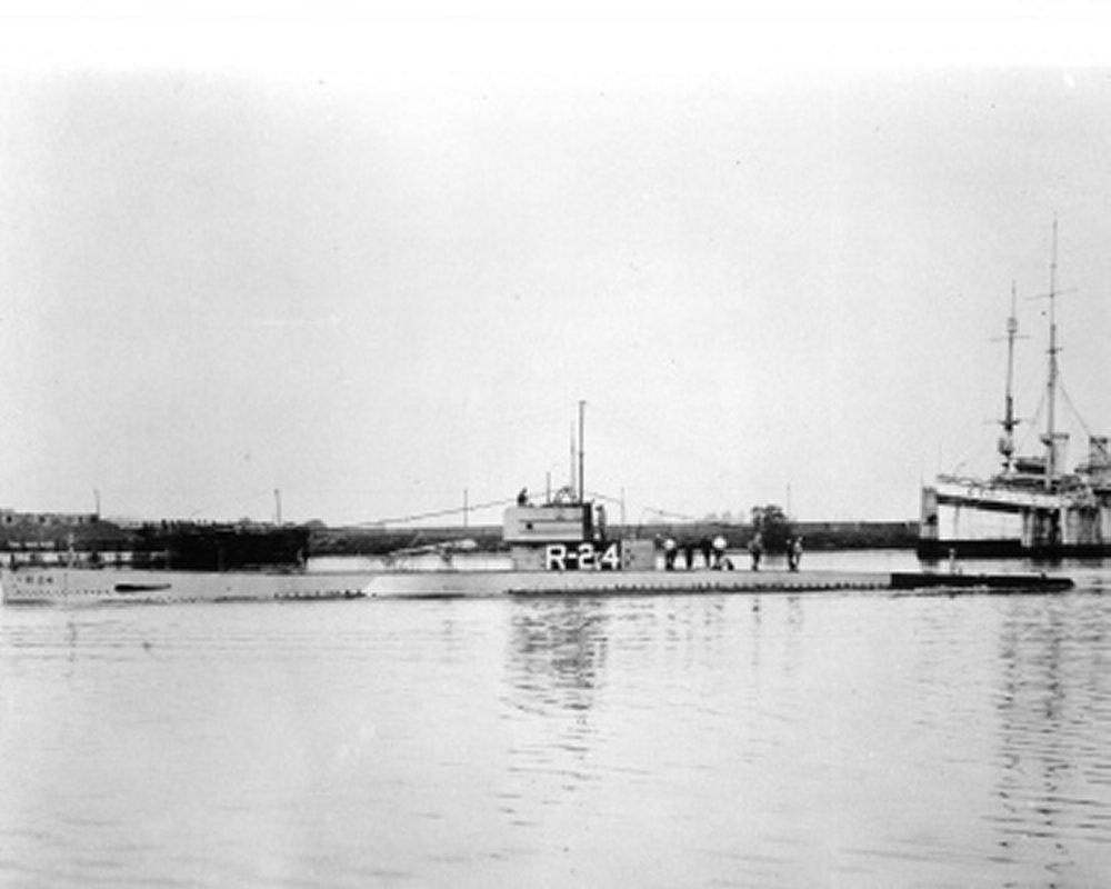 United States Navy submarine undergoing overhaul at the Philadelphia Navy Yard at Philadelphia, Pennsylvania.